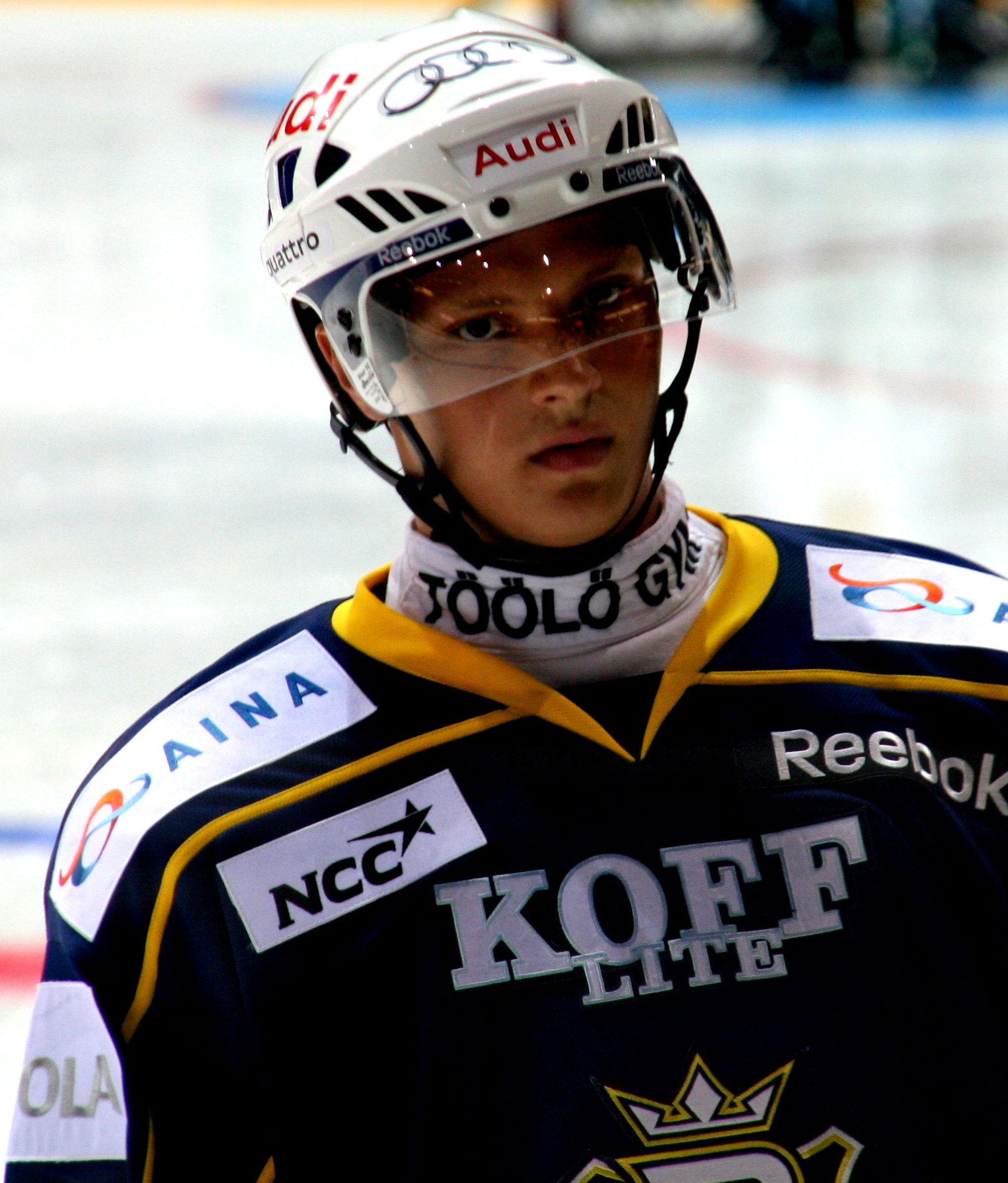 Ice Hockey team Espoo Blues' Defender #16 Kristian Näkyvä